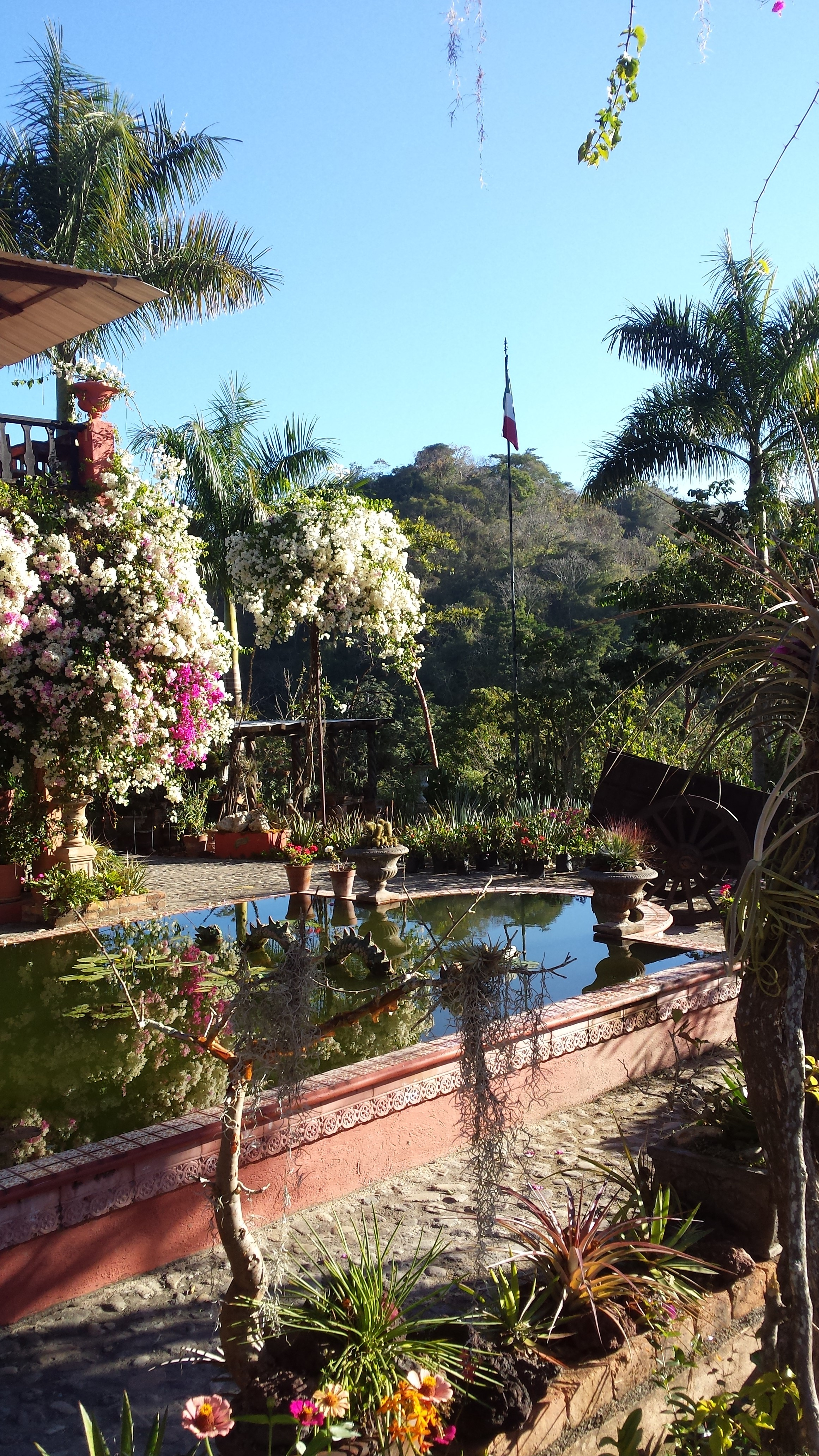 Visitor Center and Aquatic Plants Pond at the Vallarta Botanical Gardens